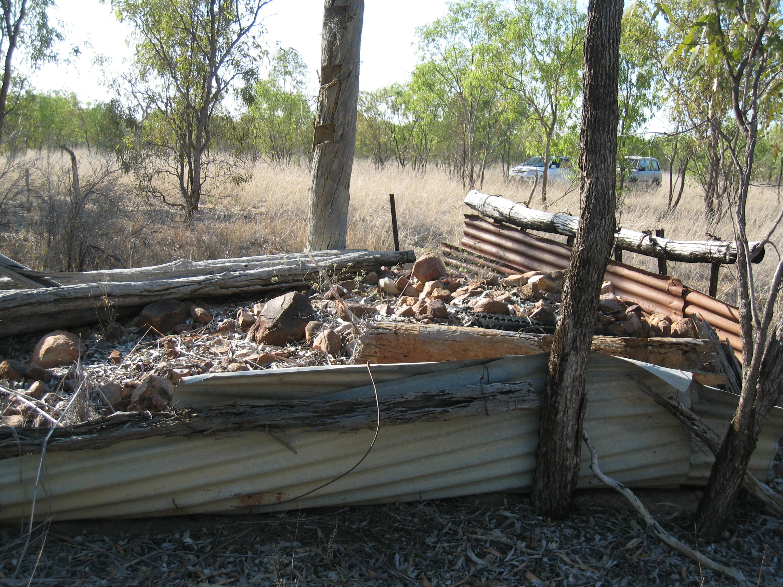 Leichhardt yard, Bradshaw station, Loading ramp. You can see the height and the excellent state of the corrugated iron. Here the cattle were penned and loaded into some form of road transport for transport to Victoria River and thence to their markets